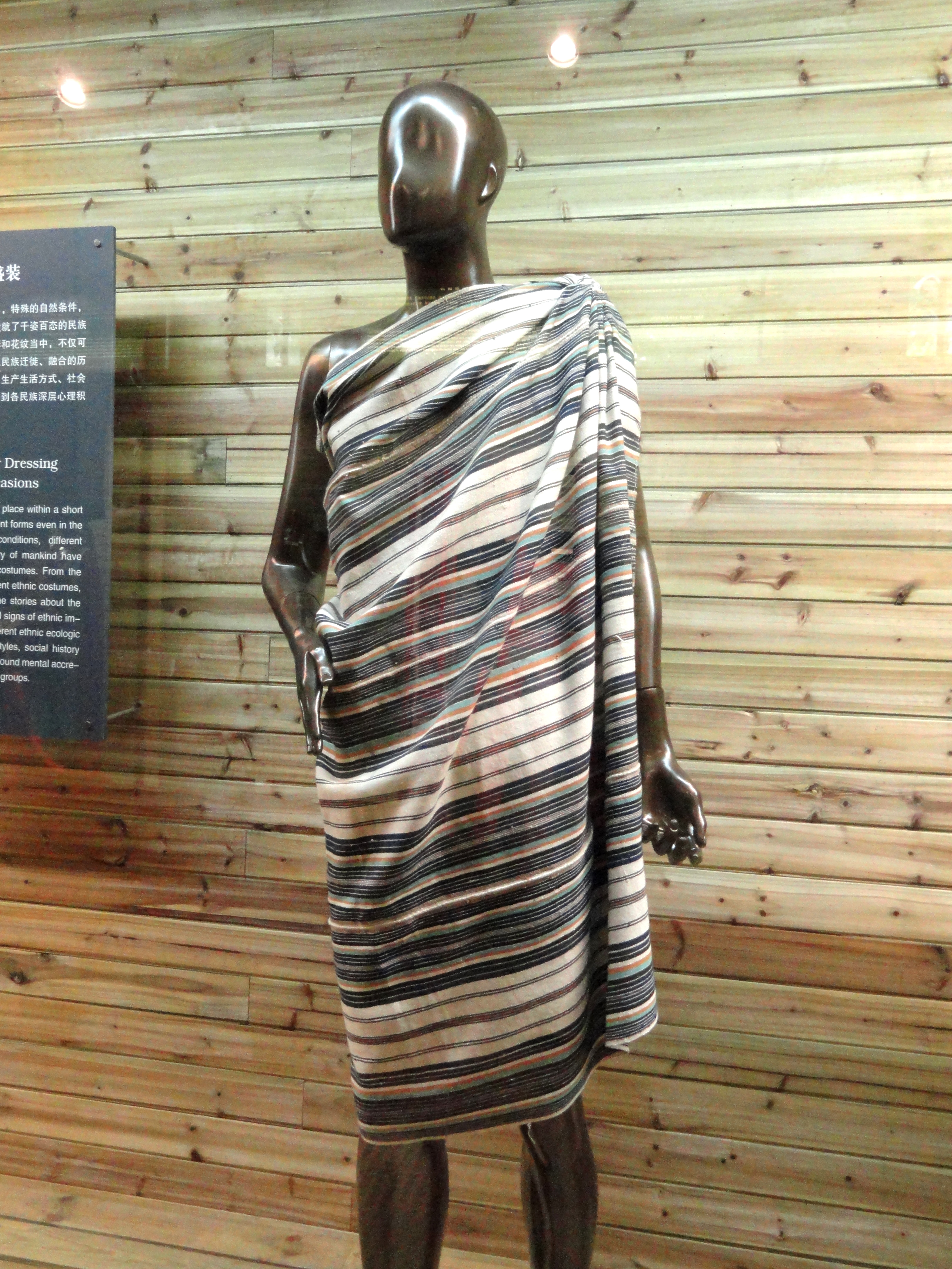 Drung man hemp clothes. Clothing exhibited in the Yunnan Nationalities Museum, Kunming, Yunnan, China.